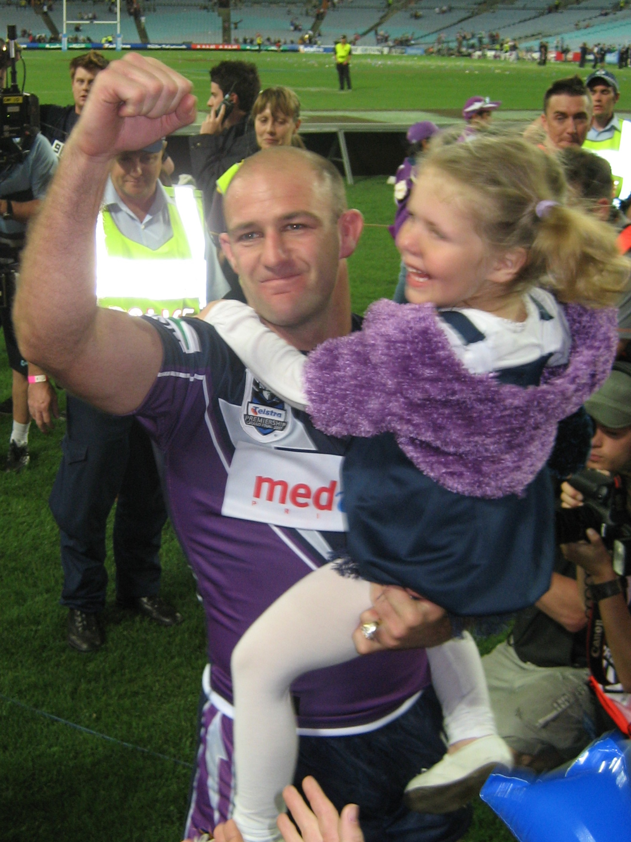 Matt geyer and his daughter after the 2007 nrl grand final